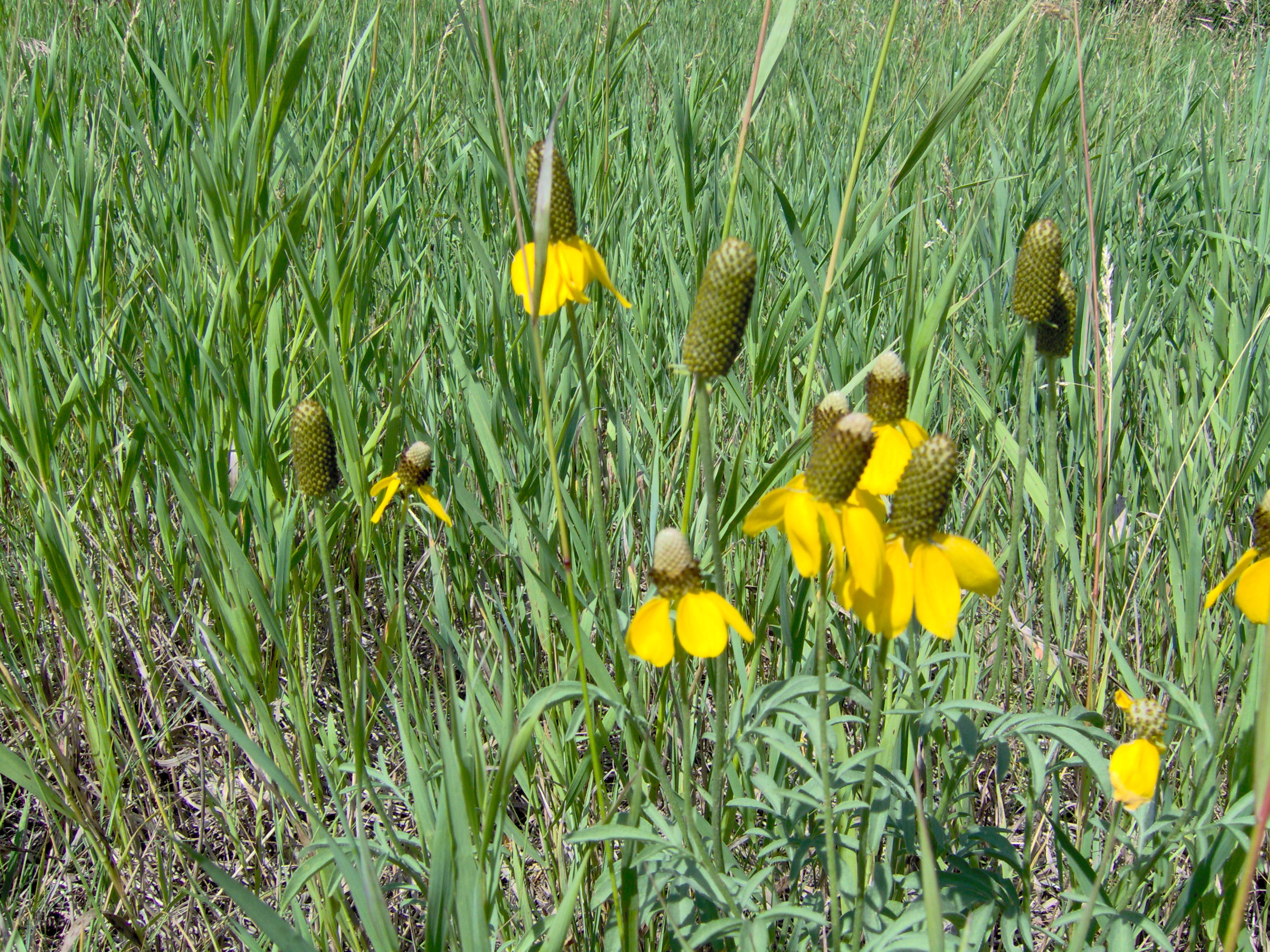 Ratiibida columnifera - Brown coneflower OR Ratibida pinnata (prairie coneflower, grayhead coneflower)